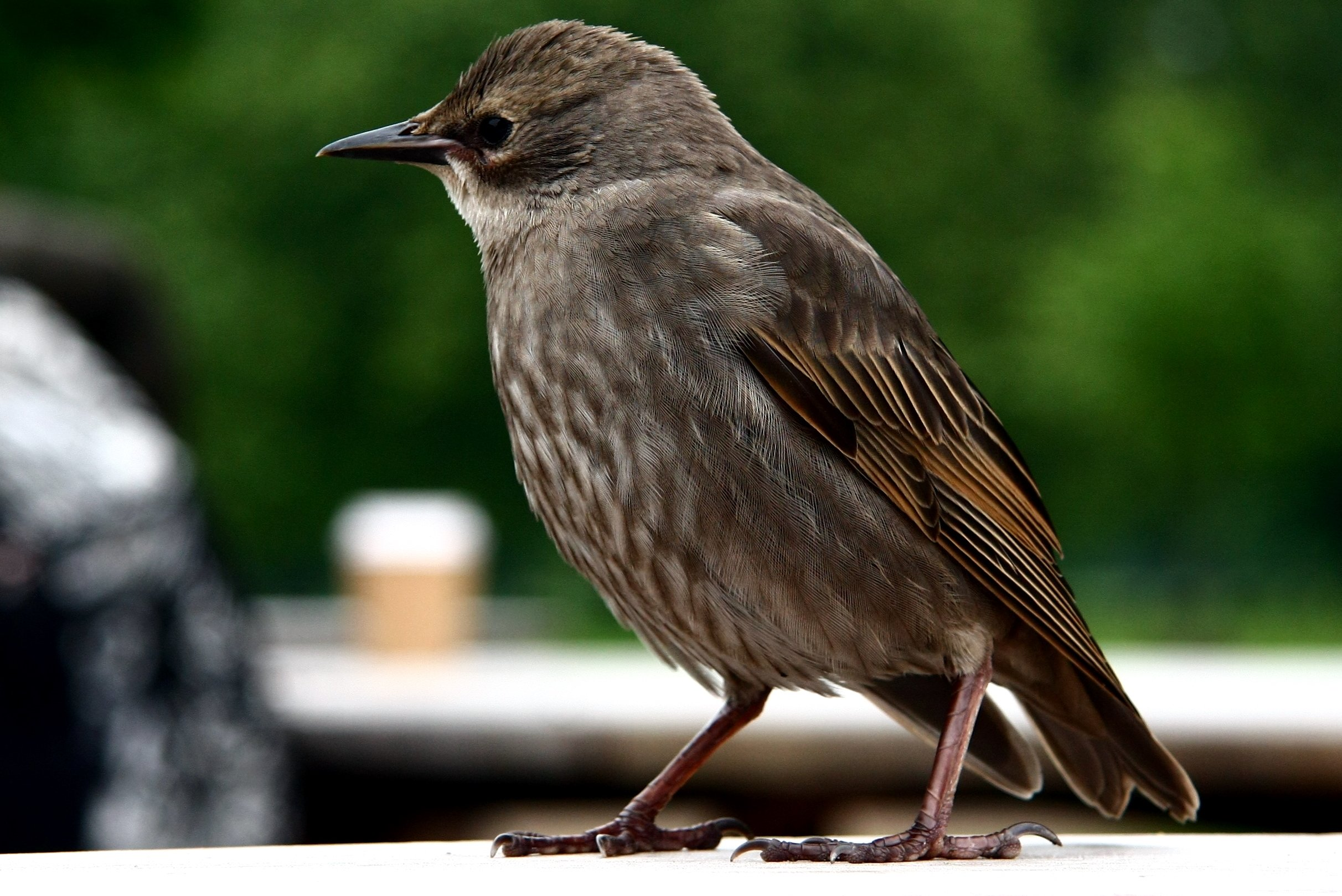 A juvenile Common Starling in Kensington Gardens, London, England. It landed on the edge of a table where the photographer was having a cup of tea